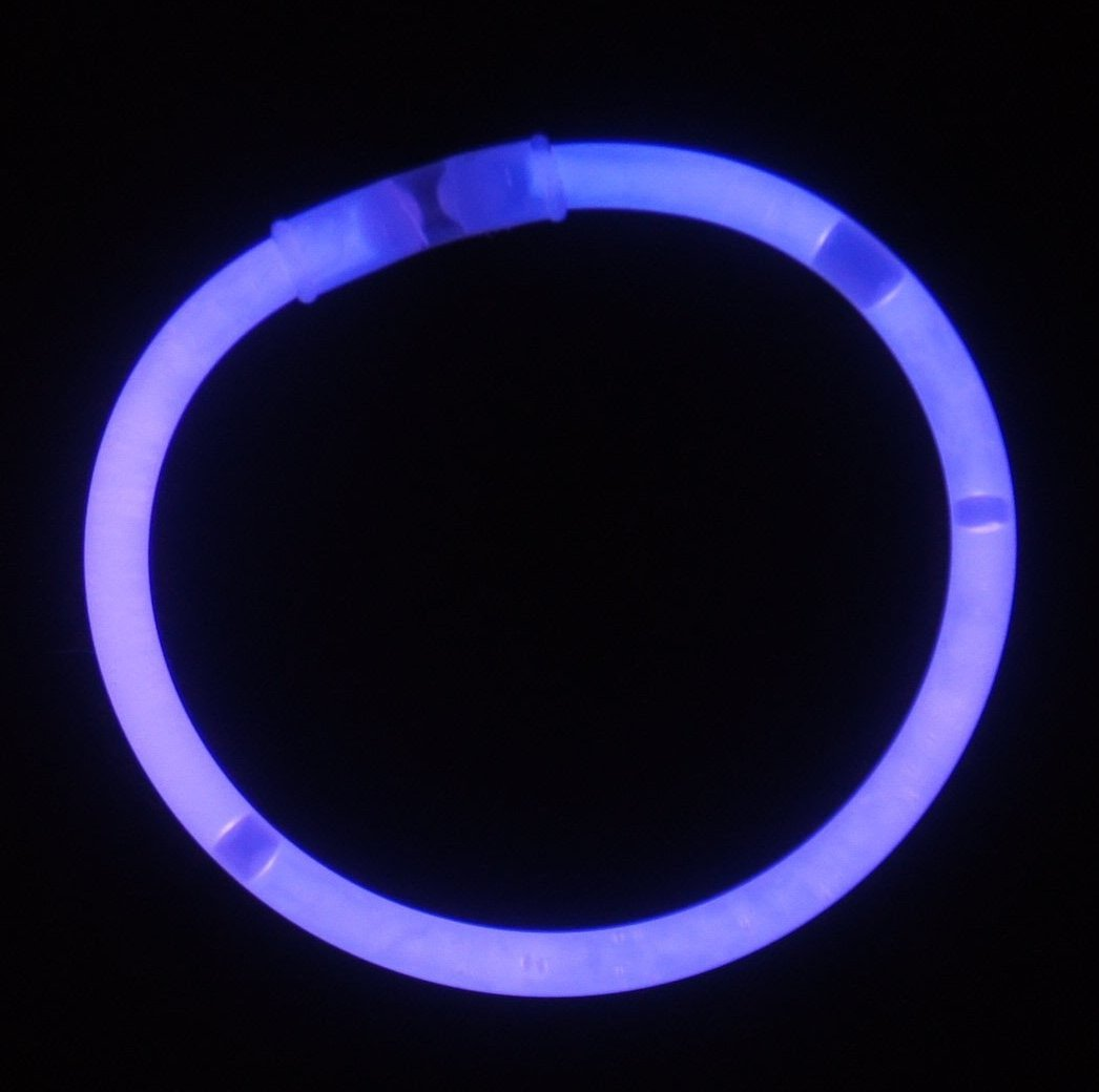 A blue ring glowstick on a black background